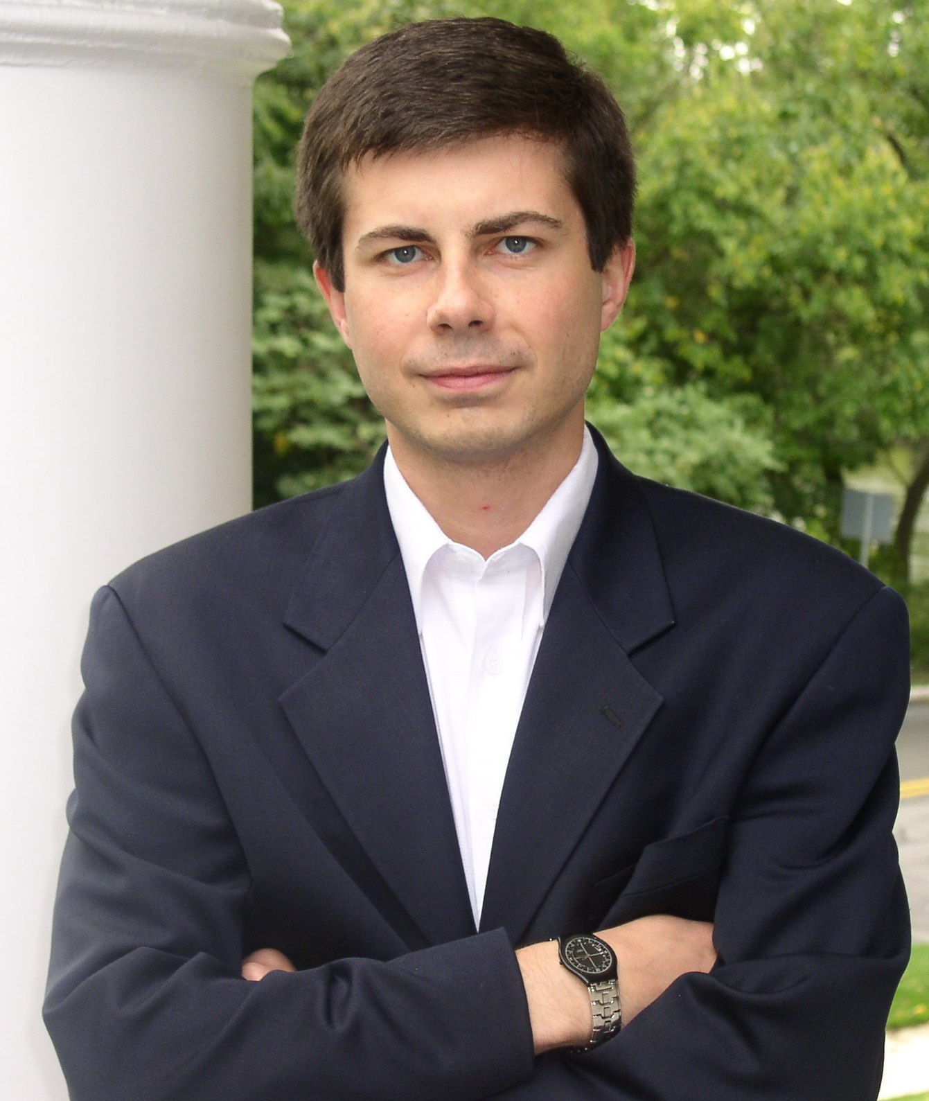 Pete Buttigieg portrait photograph